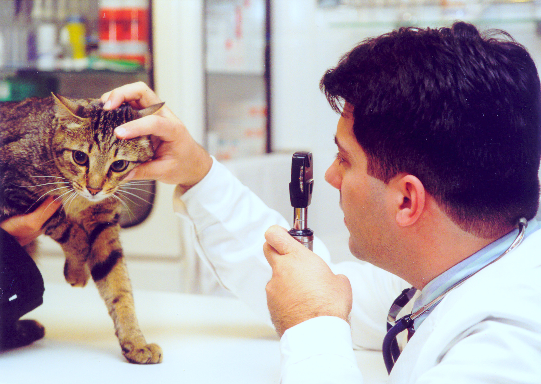 Dr. David Horvath examining a cat